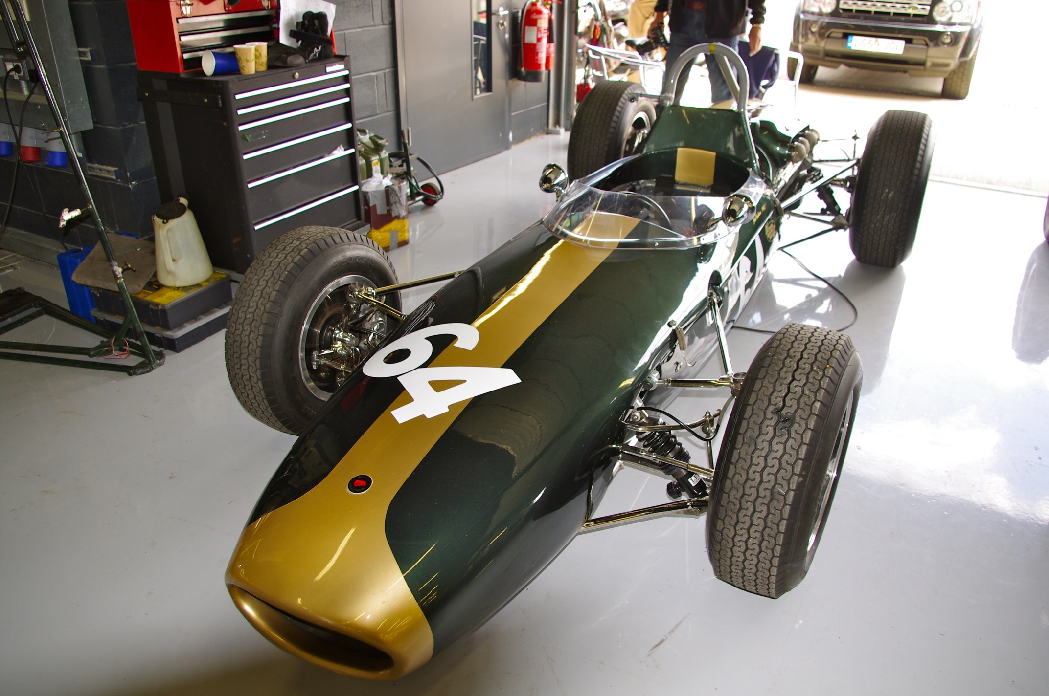 Silverstone Classic 2011